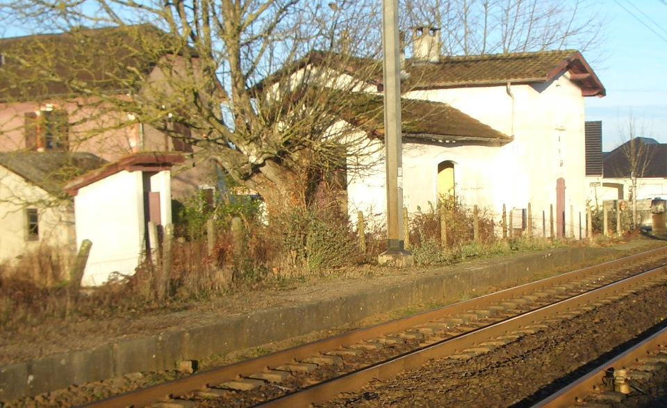 Boeil Bezing station